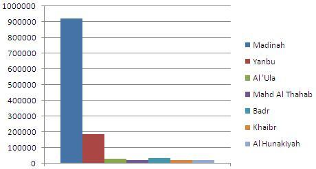 2009 Population in major cities in Madinah Province.